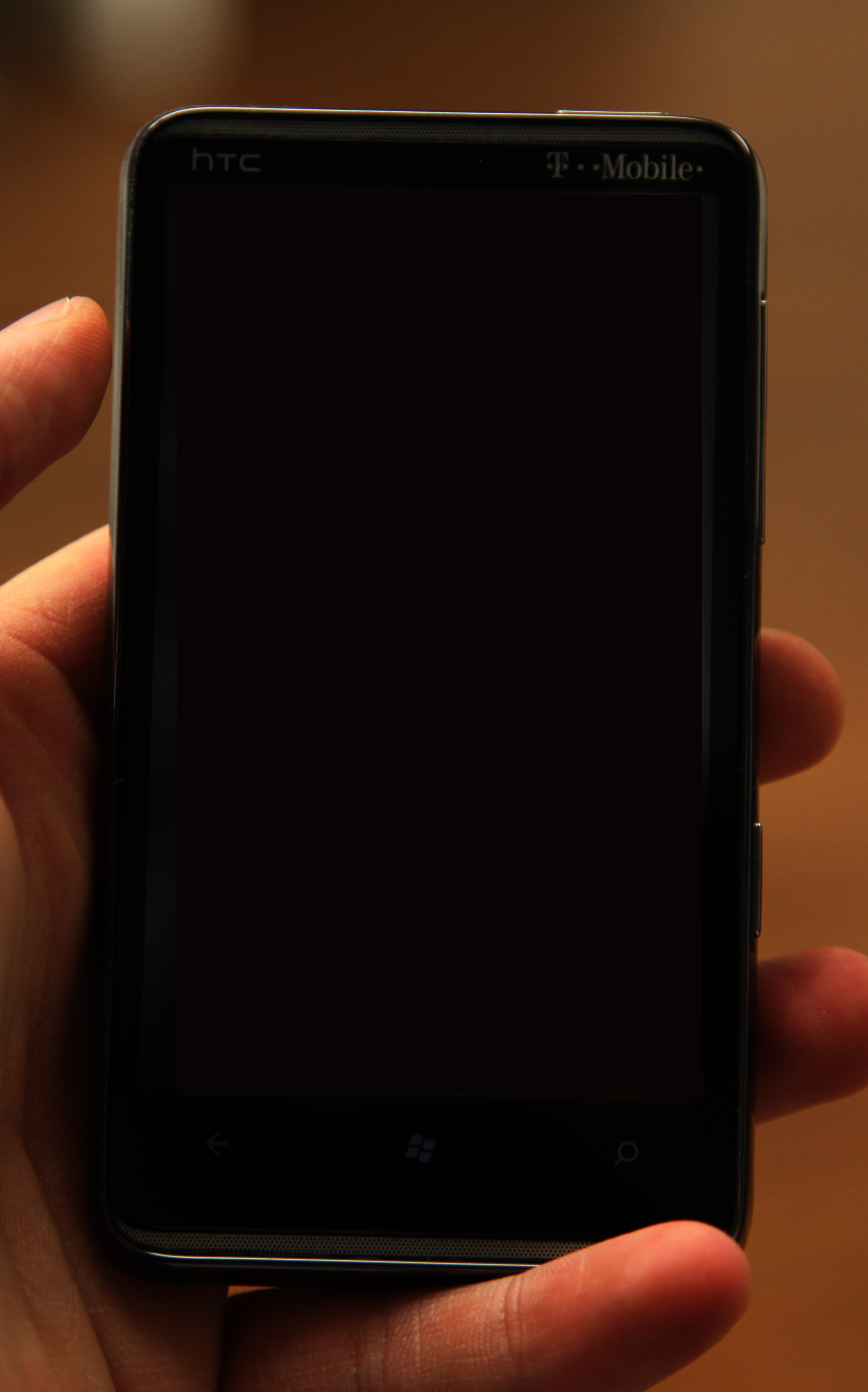 An image of the HTC HD7 smartphone.